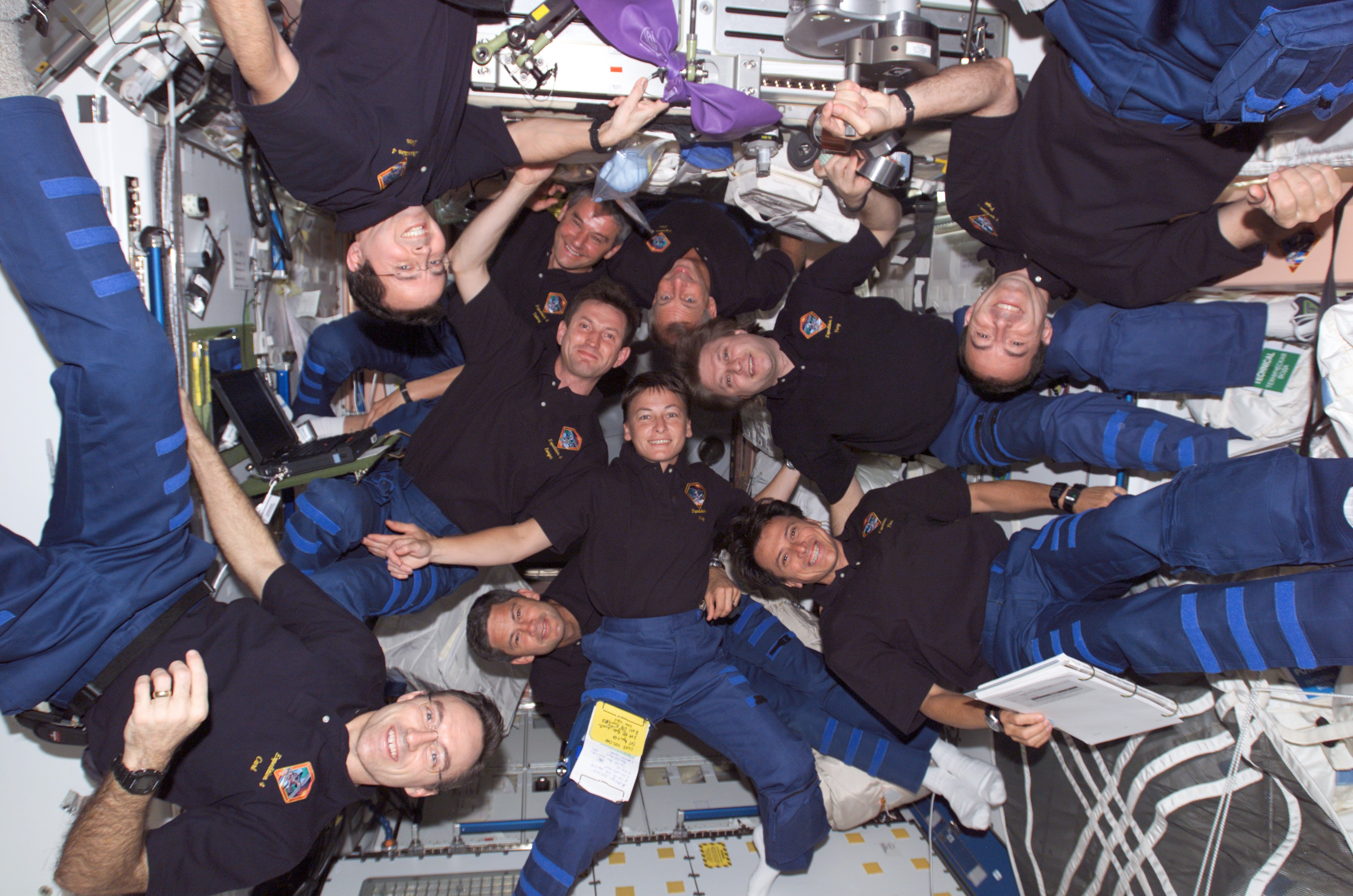 The Expedition Four, STS-111, and Expedition Five crews assemble for a group photo in the Unity node on the International Space Station (ISS). Pictured are cosmonaut Valery G. Korzun, Expedition Five mission commander; astronaut Peggy A. Whitson and cosmonaut Sergei Y. Treschev, Expedition Five flight engineers; cosmonaut Yury I. Onufrienko, Expedition Four mission commander; astronauts Carl E. Walz and Daniel W. Bursch, Expedition Four flight engineers; astronauts Kenneth D. Cockrell and Paul S. Lockhart, STS-111 mission commander and pilot, respectively; and astronauts Franklin R. Chang-Diaz and Philippe Perrin, both STS-111 mission specialists. Korzun, Onufrienko, and Treschev represent Rosaviakosmos, and Perrin represents CNES, the French Space Agency.